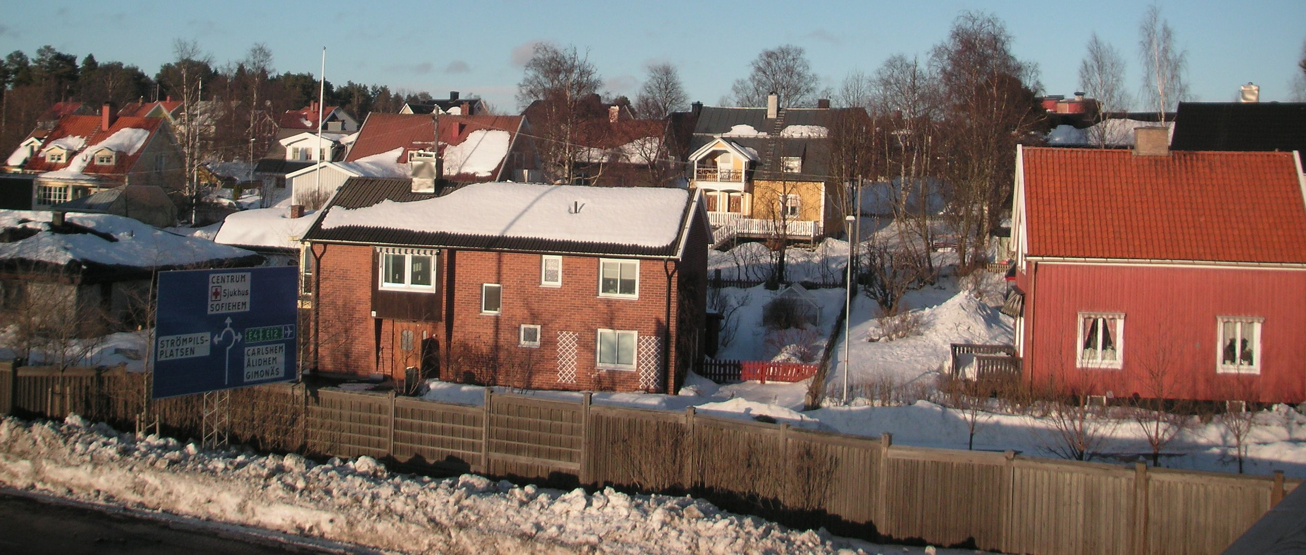 Panoramic view on neighborhood "Gimonäs" in Umeå, Sweden.